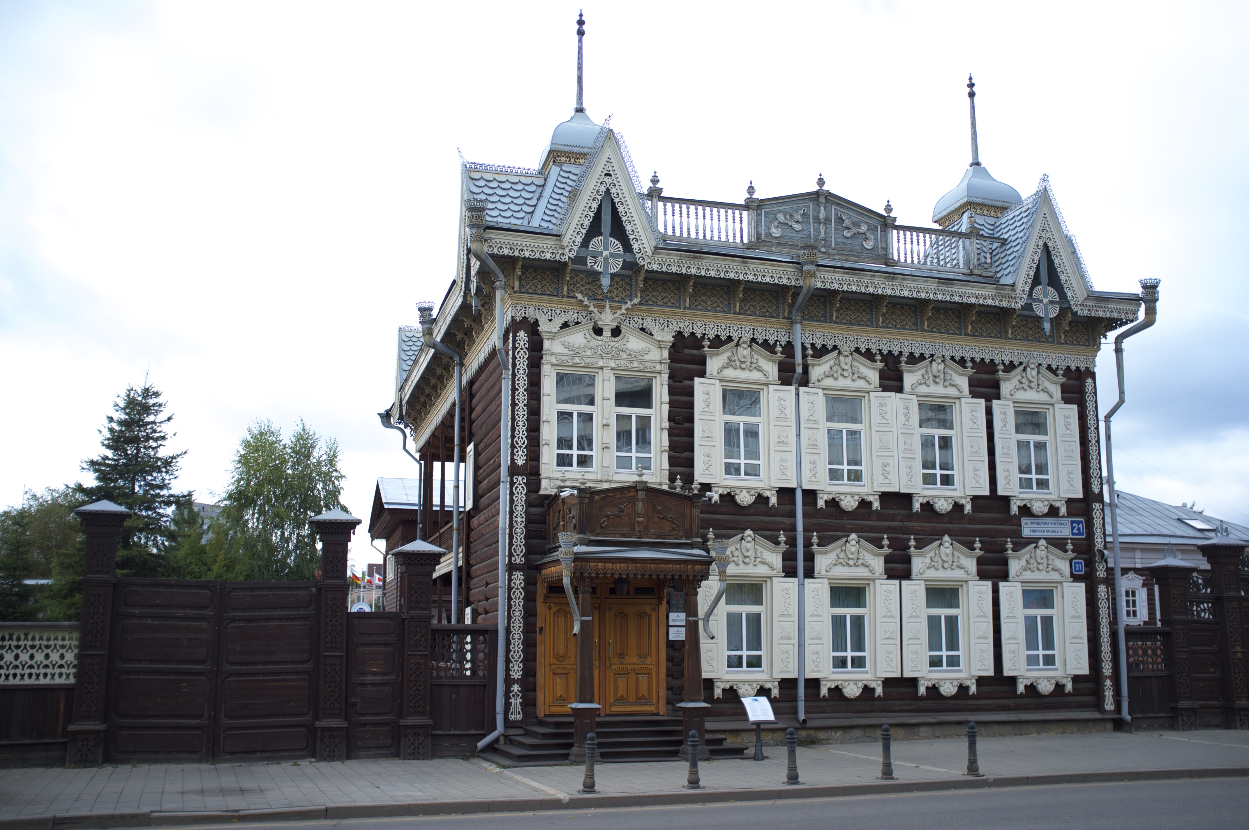 The Europe House (Shastin's House), Irkutsk